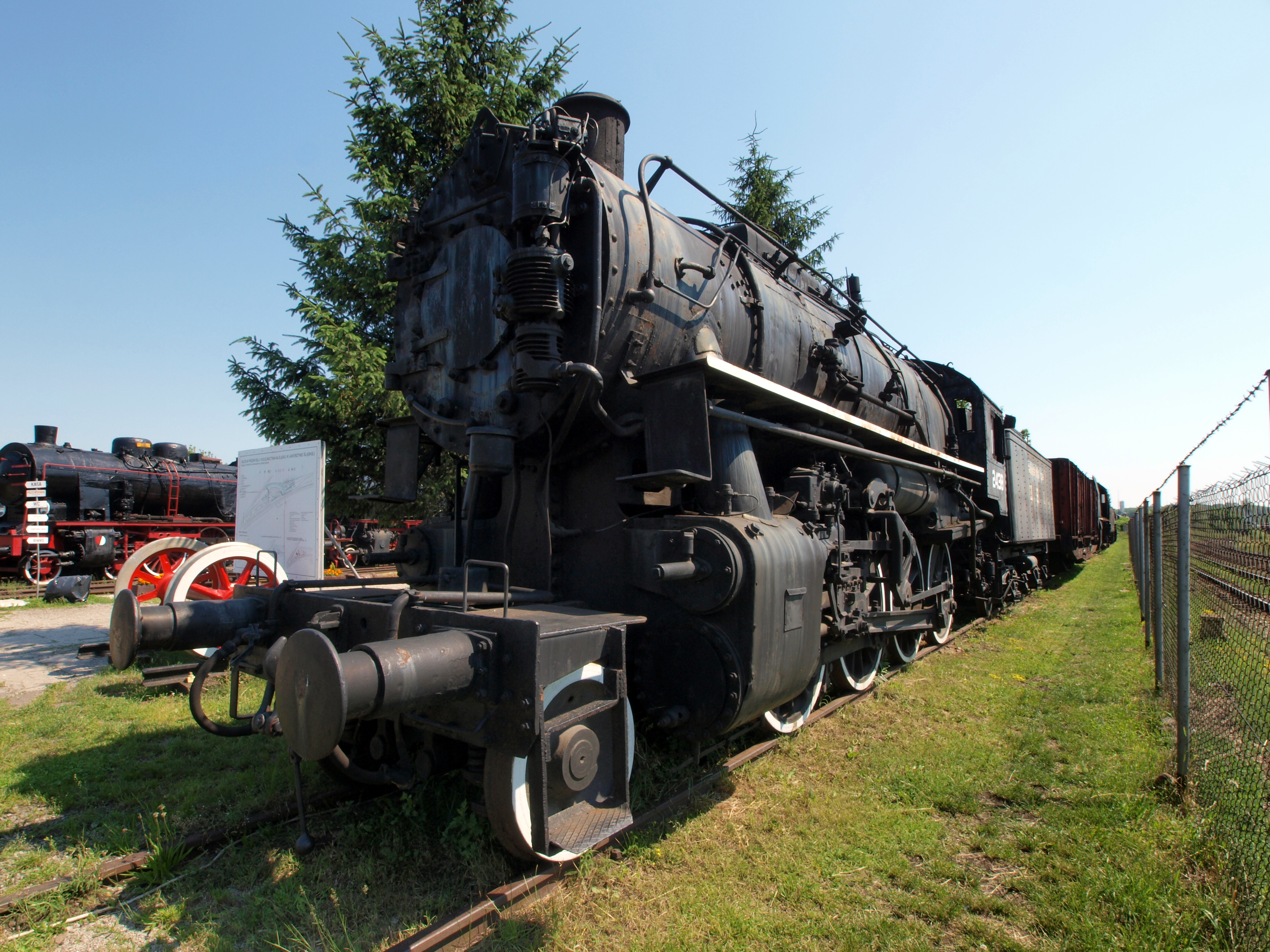 US Army Class S160 No.2438 at the Museum of Industry and Railway in Lower Silesia.